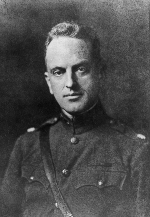 Abram Piatt Andrew, Director of the American Ambulance Field Service during World War I